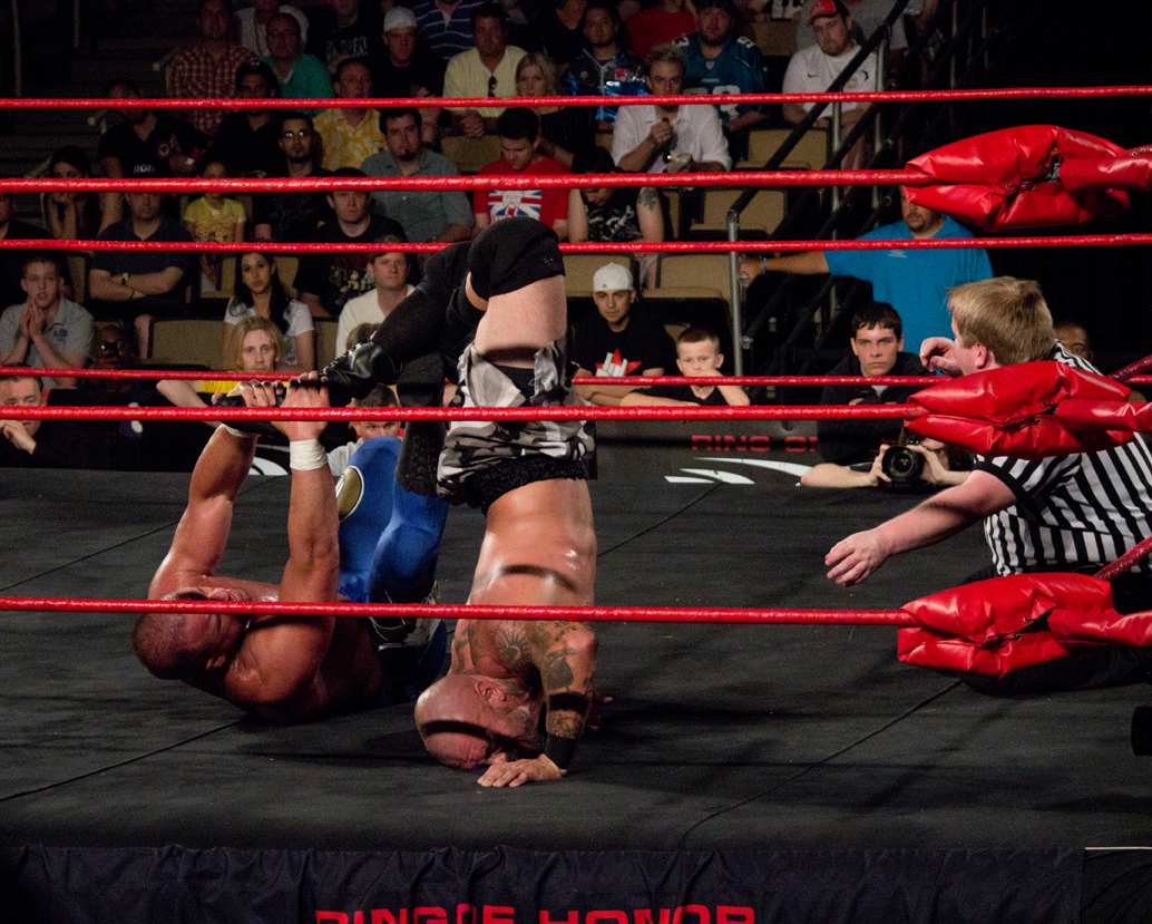 Charlie Haas performing his innovated finishing submission move.